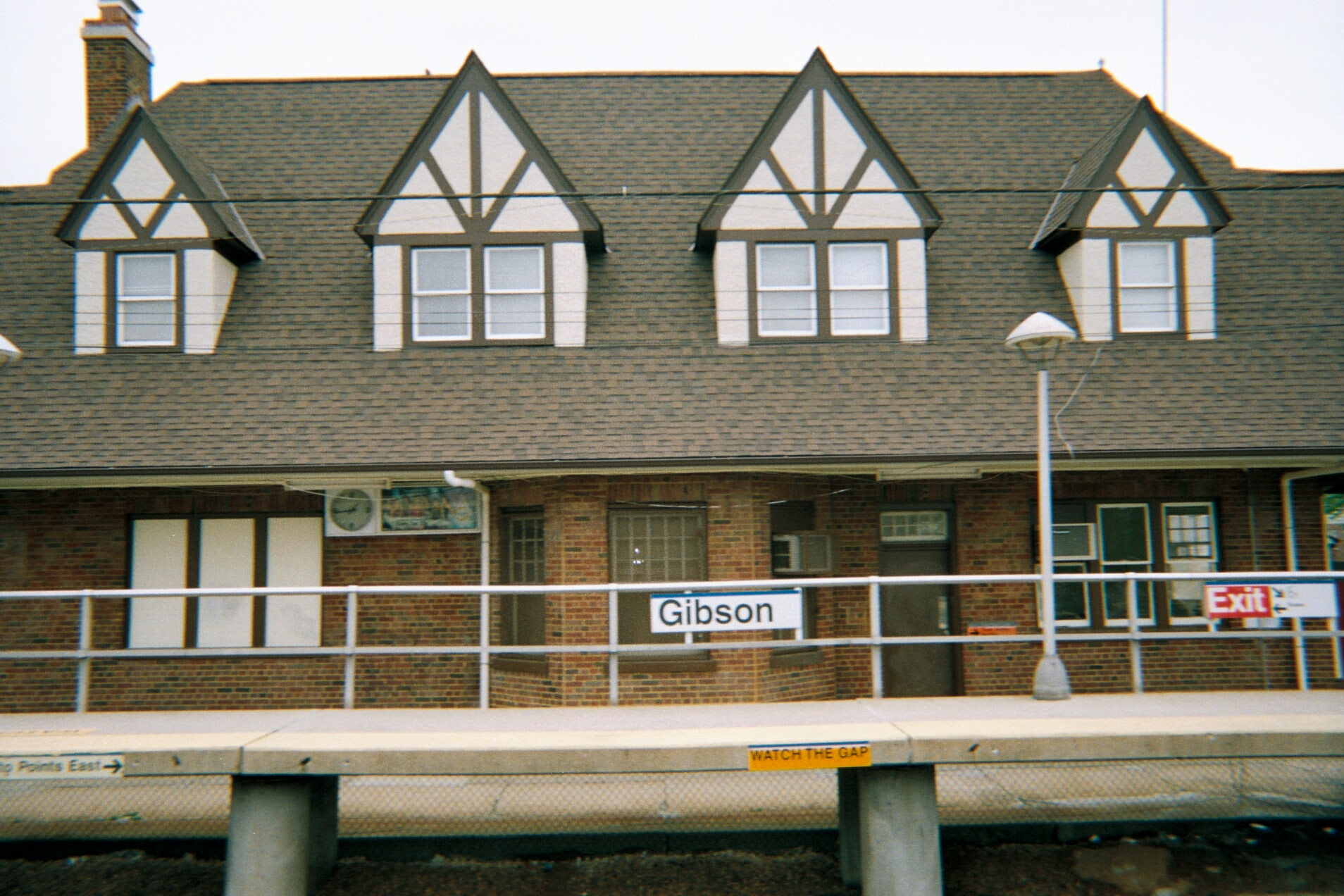 Side view of Gibson (LIRR station) in Valley Stream, New York